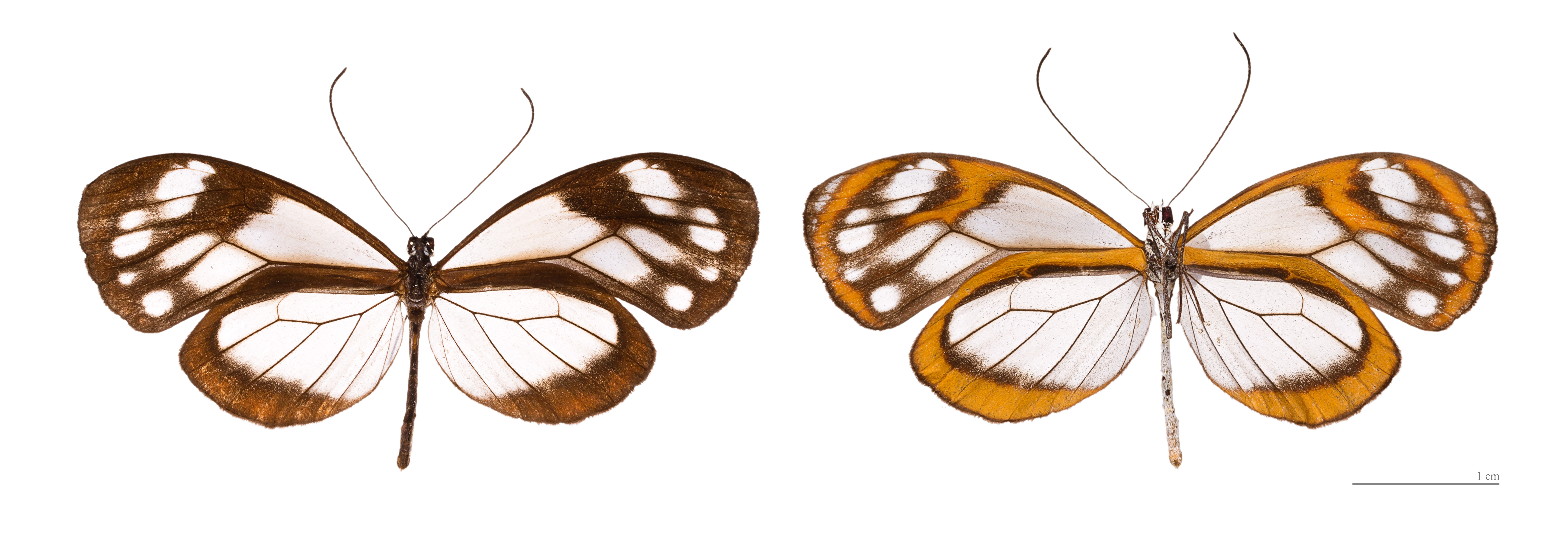 ♂ - Two views of same specimen Locality : Degrad Lalanne, Route de Kaw PK31, French Guiana.